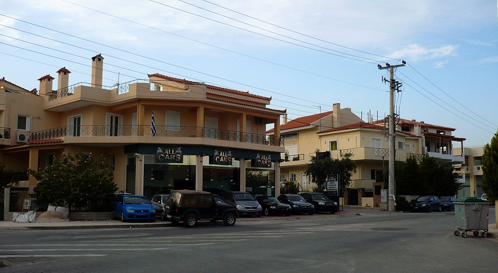 The picture depicts a neighbourhood at Gargittos.